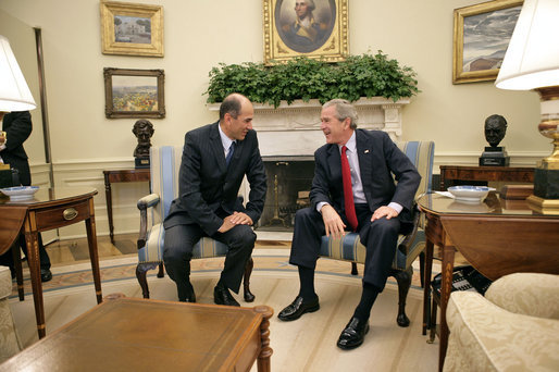 US President George W. Bush meets with Prime Minister Janez Janša of Slovenia in the Oval Office